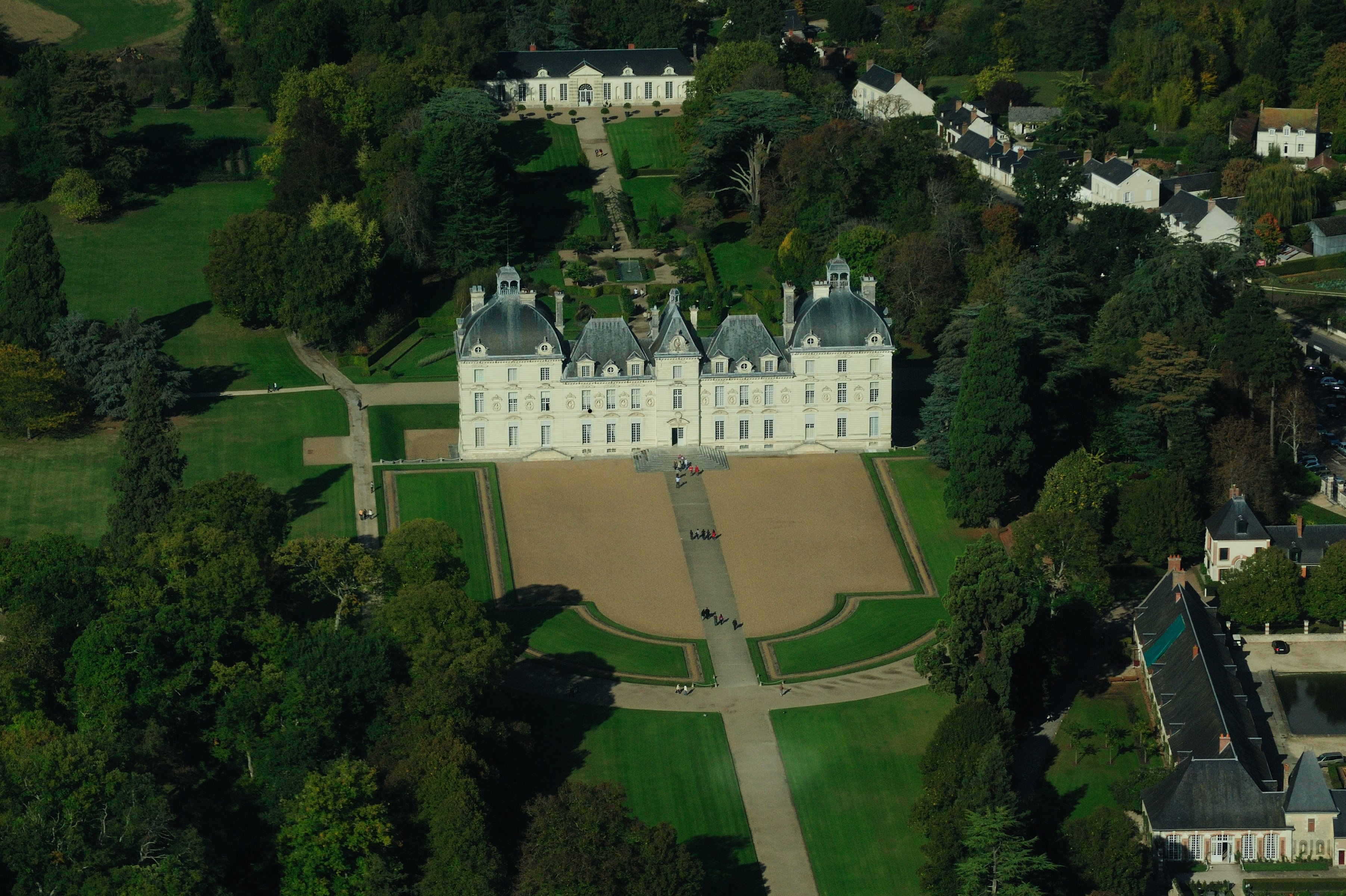 Aerial view of Cheverny castle (Loir-et-Cher department, France). Nikon D60 f=90mm f/9 at 1/1250s ISO 400. Processed using Nikon ViewNX 1.3.0 and GIMP 2.6.6.